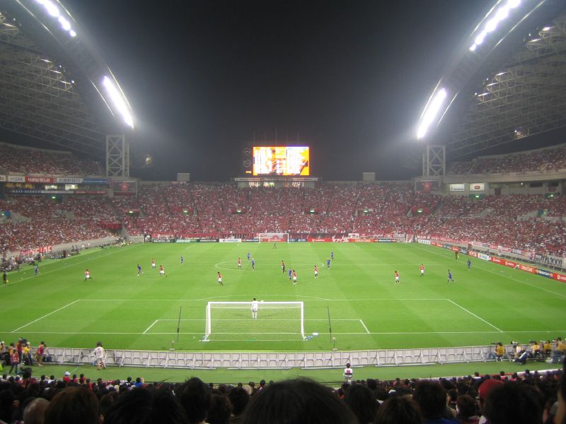 manchester united vs urawa red diamonds at Saitama stadium, urawa